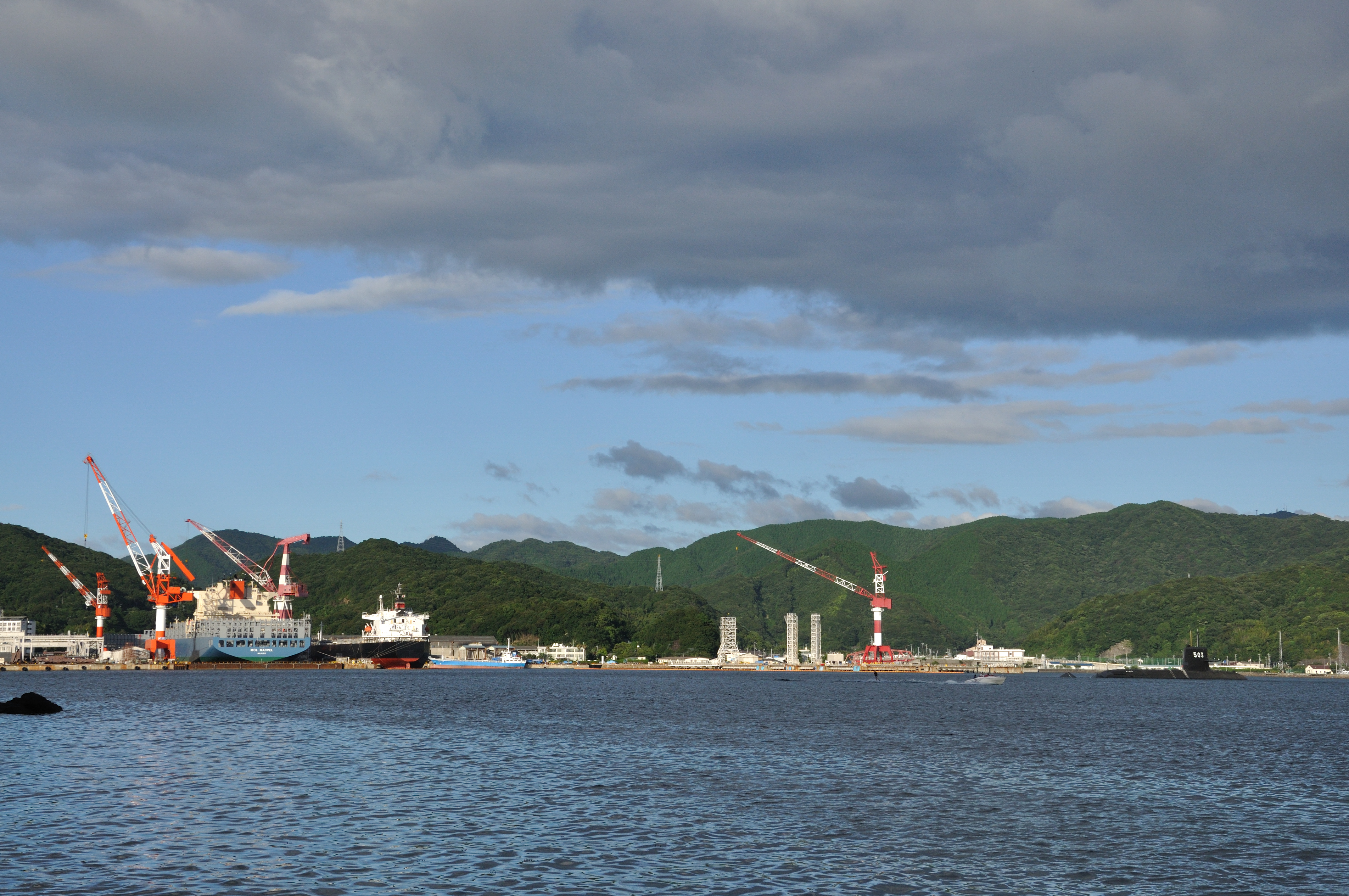 A view of the Port of Yura. Nikon D90 + AF-S DX Nikkor 18-105mm f/3.5-5.6G ED VR